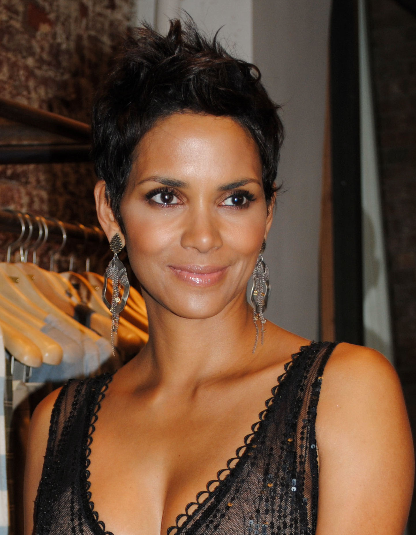 Actress Halle Berry at the 2010 New York Fashion Week.